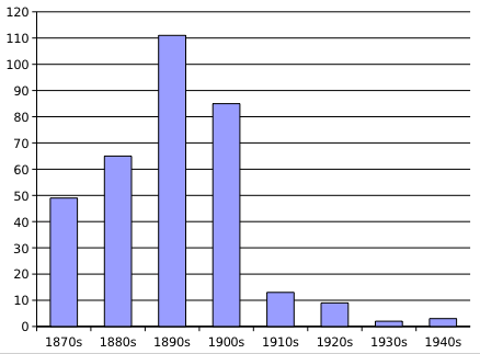 Number of French psychiatric theses whose main topic was hysteria. Data from: Mark S. Micale (1993). "On the "Disappearance" of Hysteria: A Study in the Clinical Deconstruction of a Diagnosis". Isis 84: 496-526.